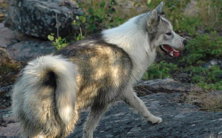 Canadian Eskimo Dog